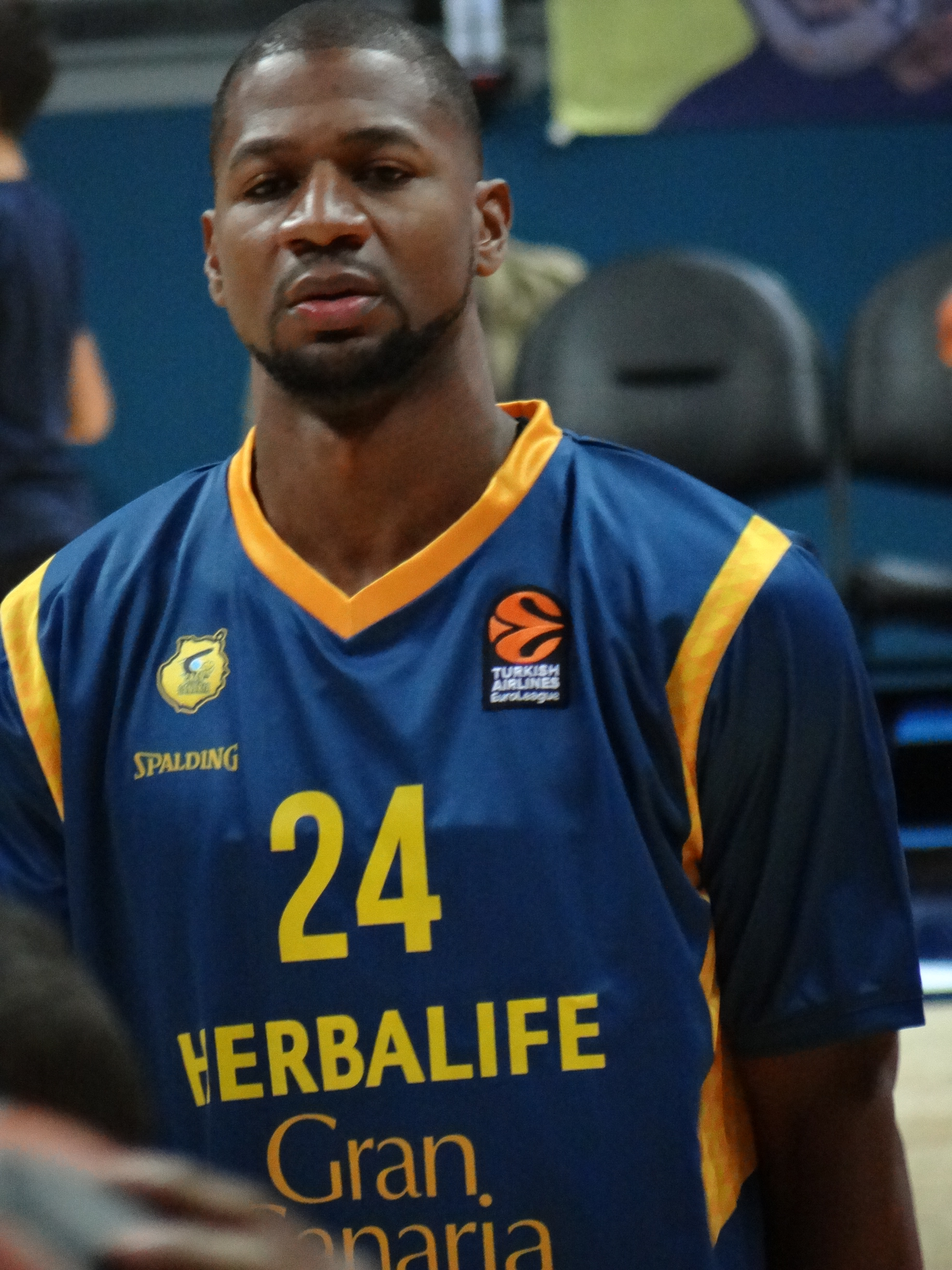 D. J. Strawberry 24 CB Gran Canaria EuroLeague 20181012